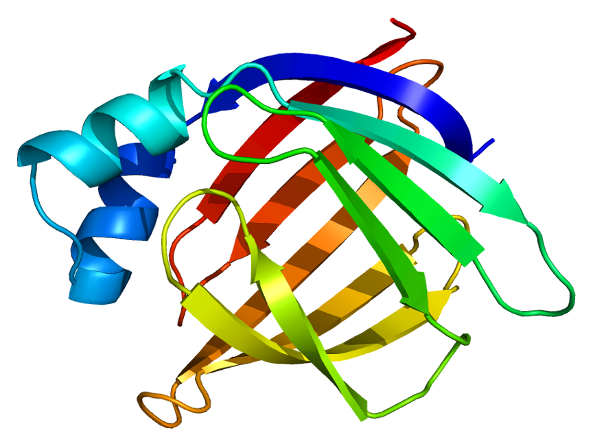 Structure of the FABP2 protein. Based on PyMOL rendering of PDB 1kzw.